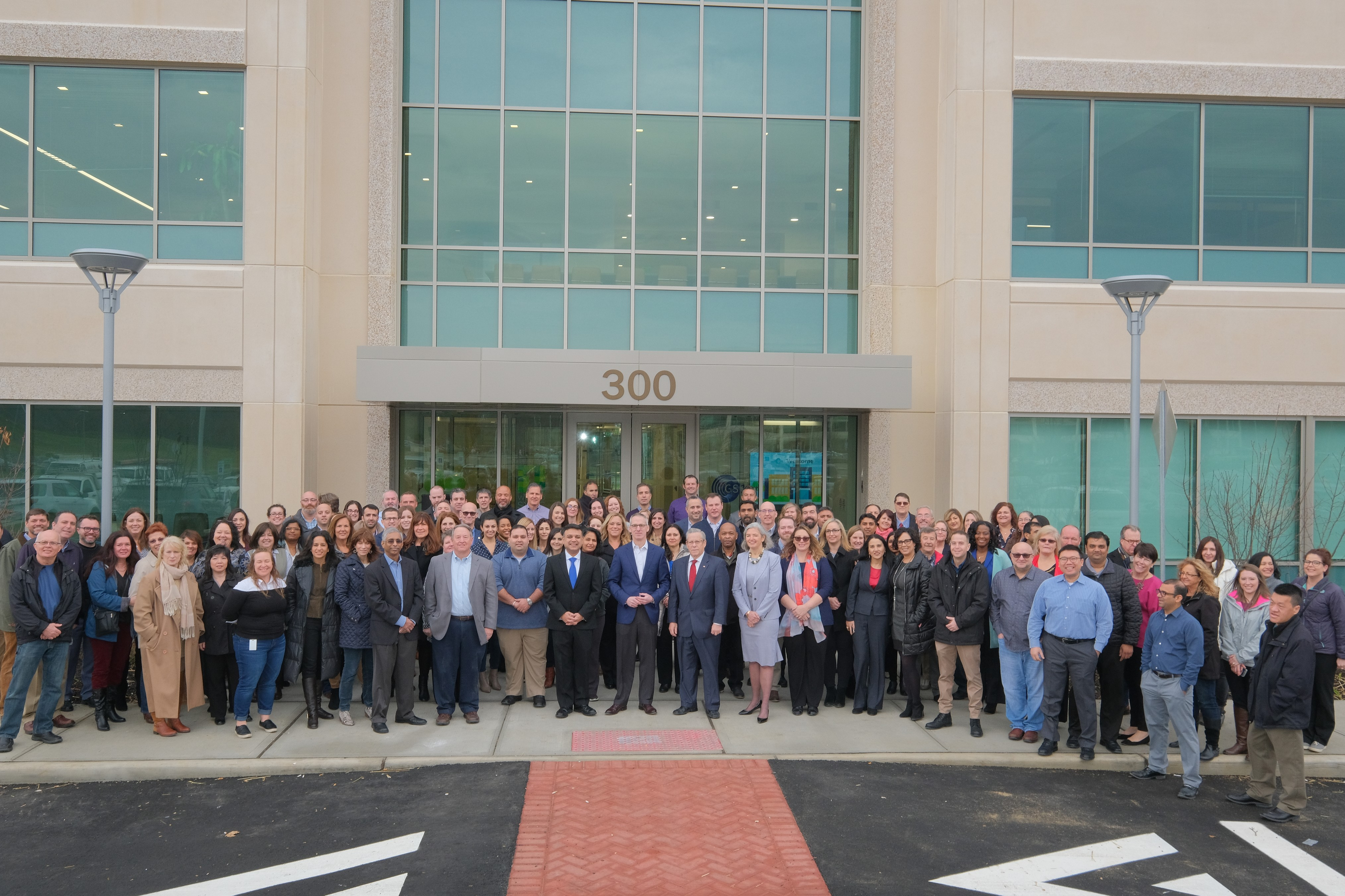 GS1 US in front of Ewing, NJ office.